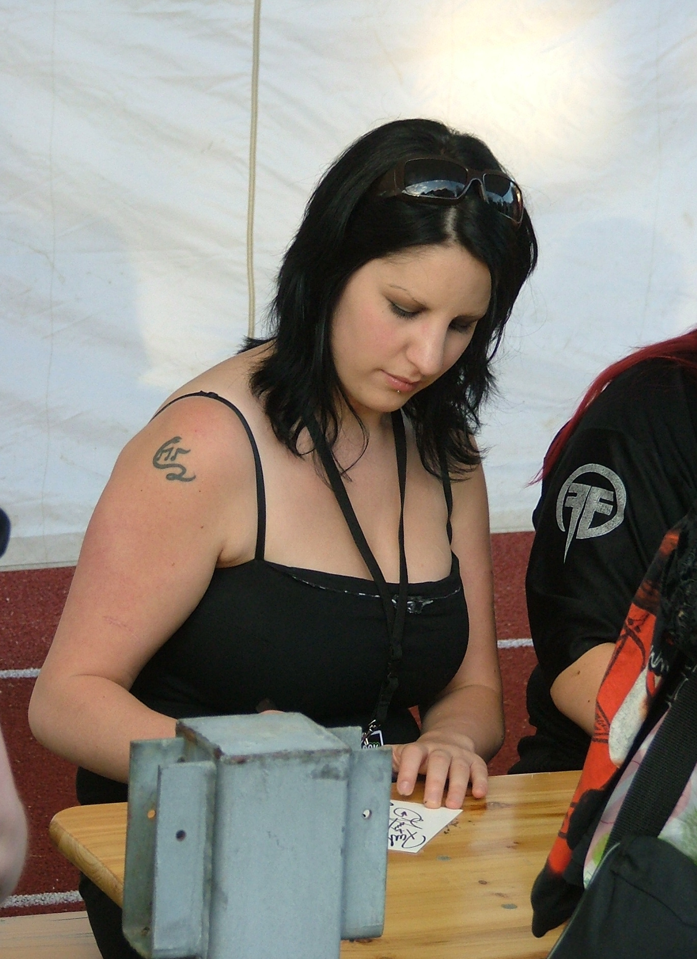 Rosie Smith of english metal band Cradle of Filth in Kuopio at Rockcock-musicfestival